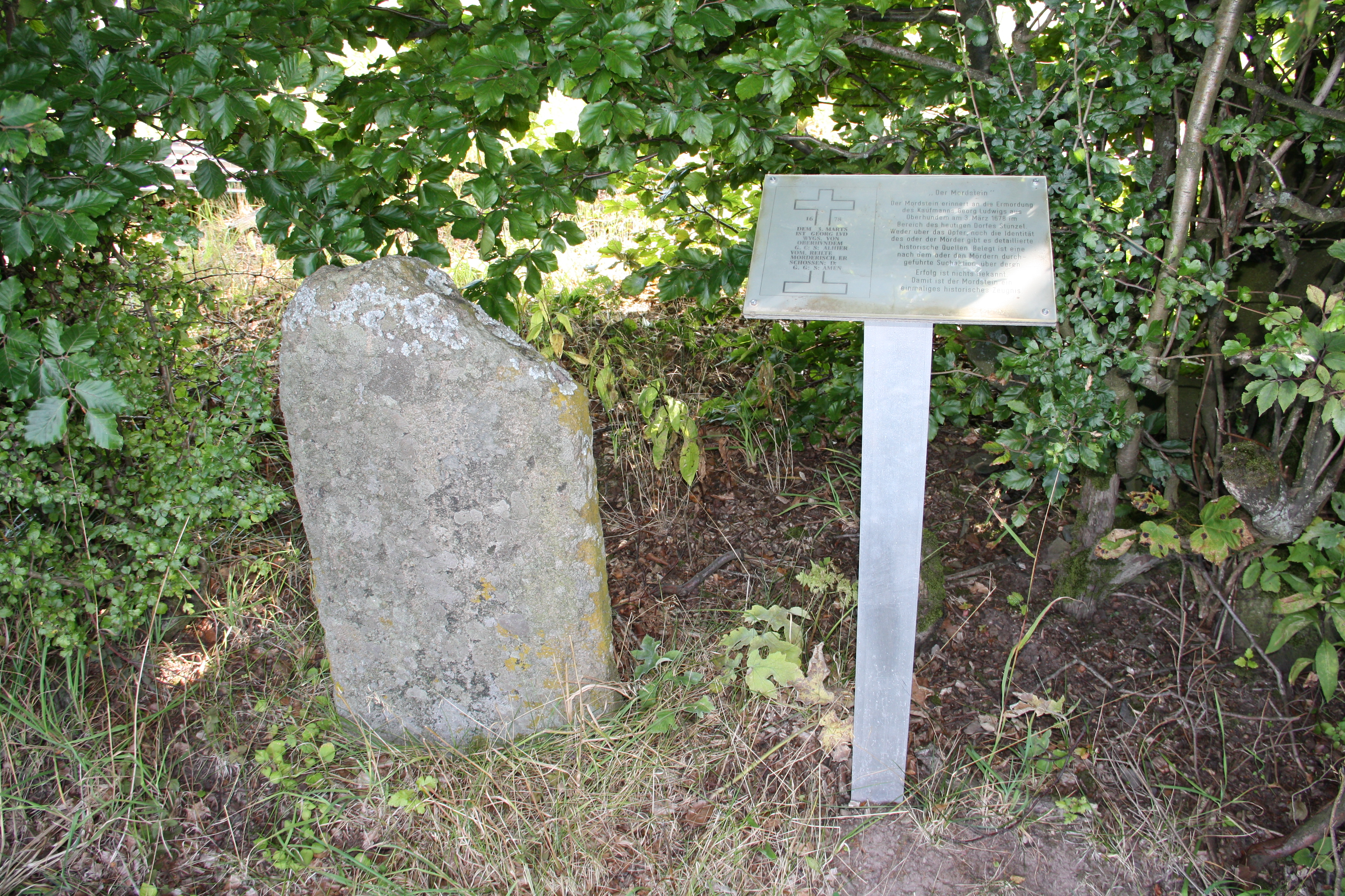 This is a photograph of an architectural monument., no. 080